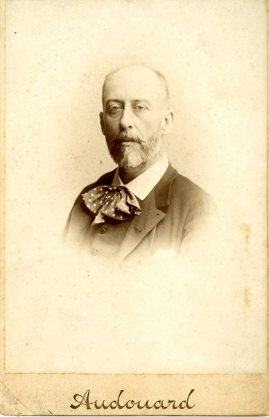 Francesc Soler i Rovirosa (Barcelona 1836-1900) was a Catalan painter and scenographer.